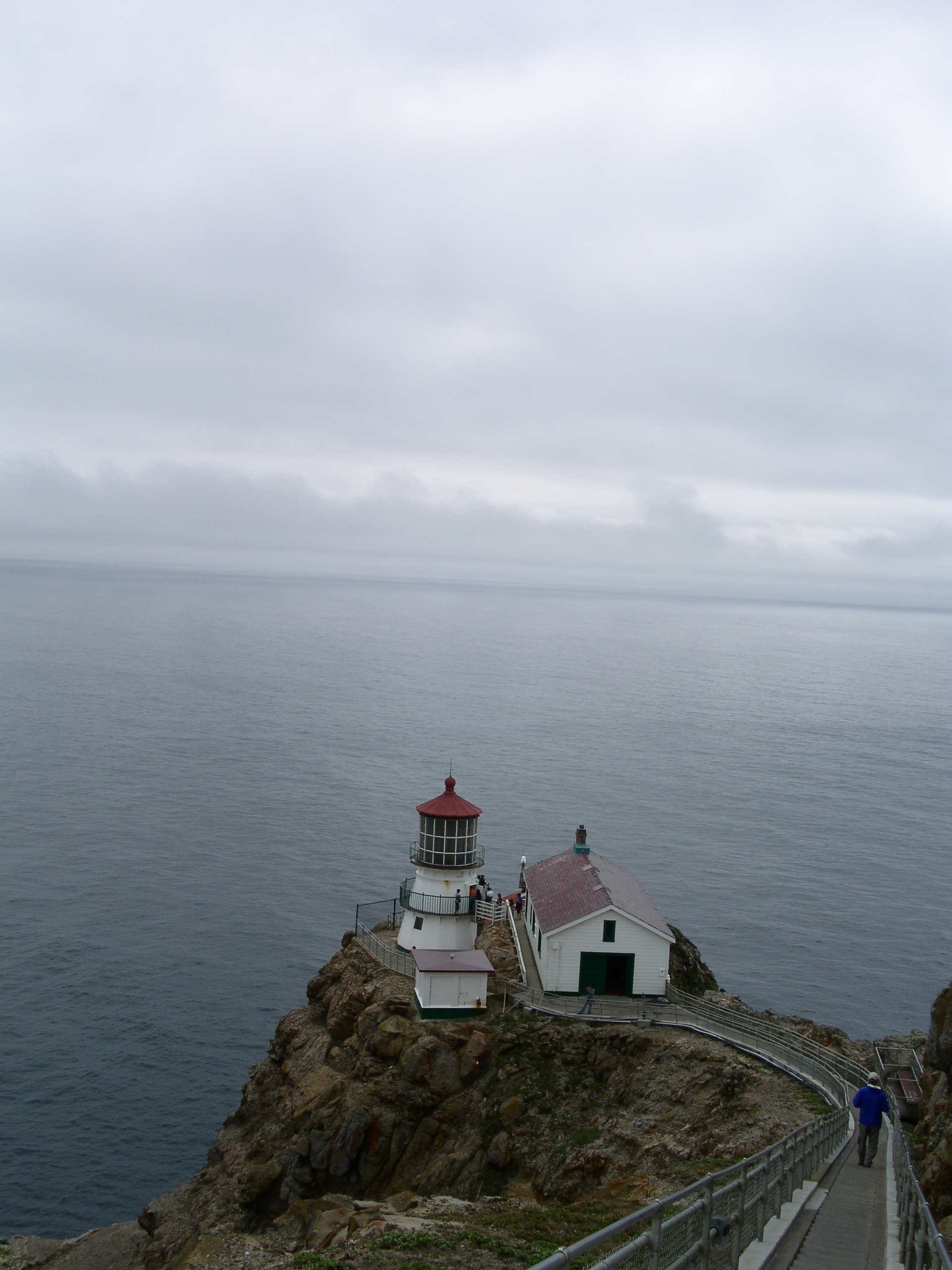 Picture taken by me of the Lighthouse in Point Reyes National Seashore.